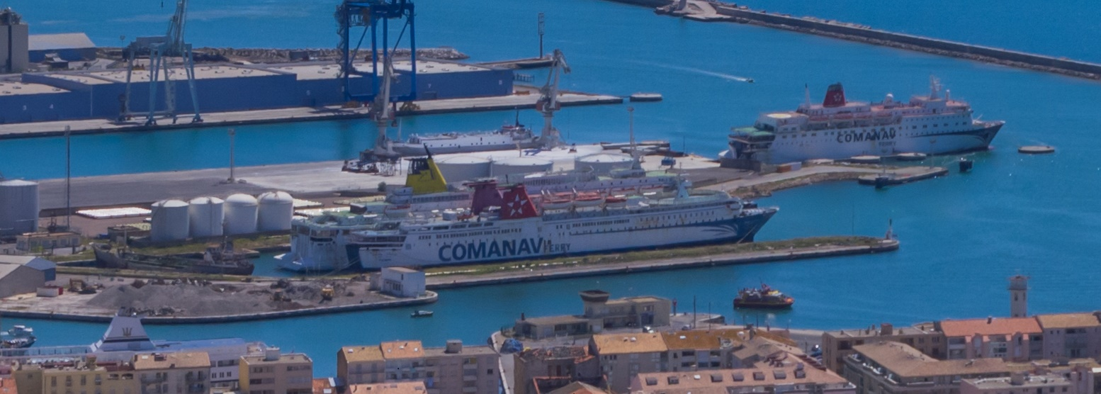 Four ships detained in Sète Harbor on May 26, 2013. From left to right : the cargo Edoil, the ferries Bni Nsar (two red funnels), Biladi (one yellow funnel) and Marrakech (one red funnel)